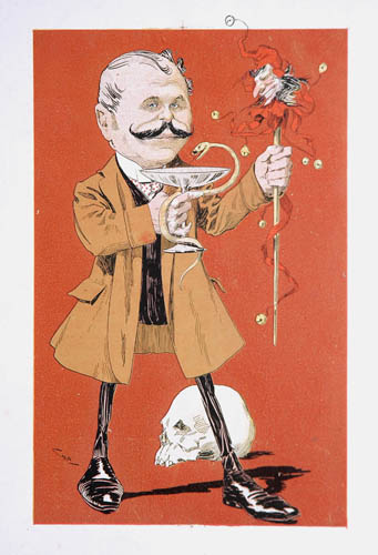 Caricature of Domingo Cabred, made by José María Cao Luaces and published in 1902 by the Caras y Caretas magazine.